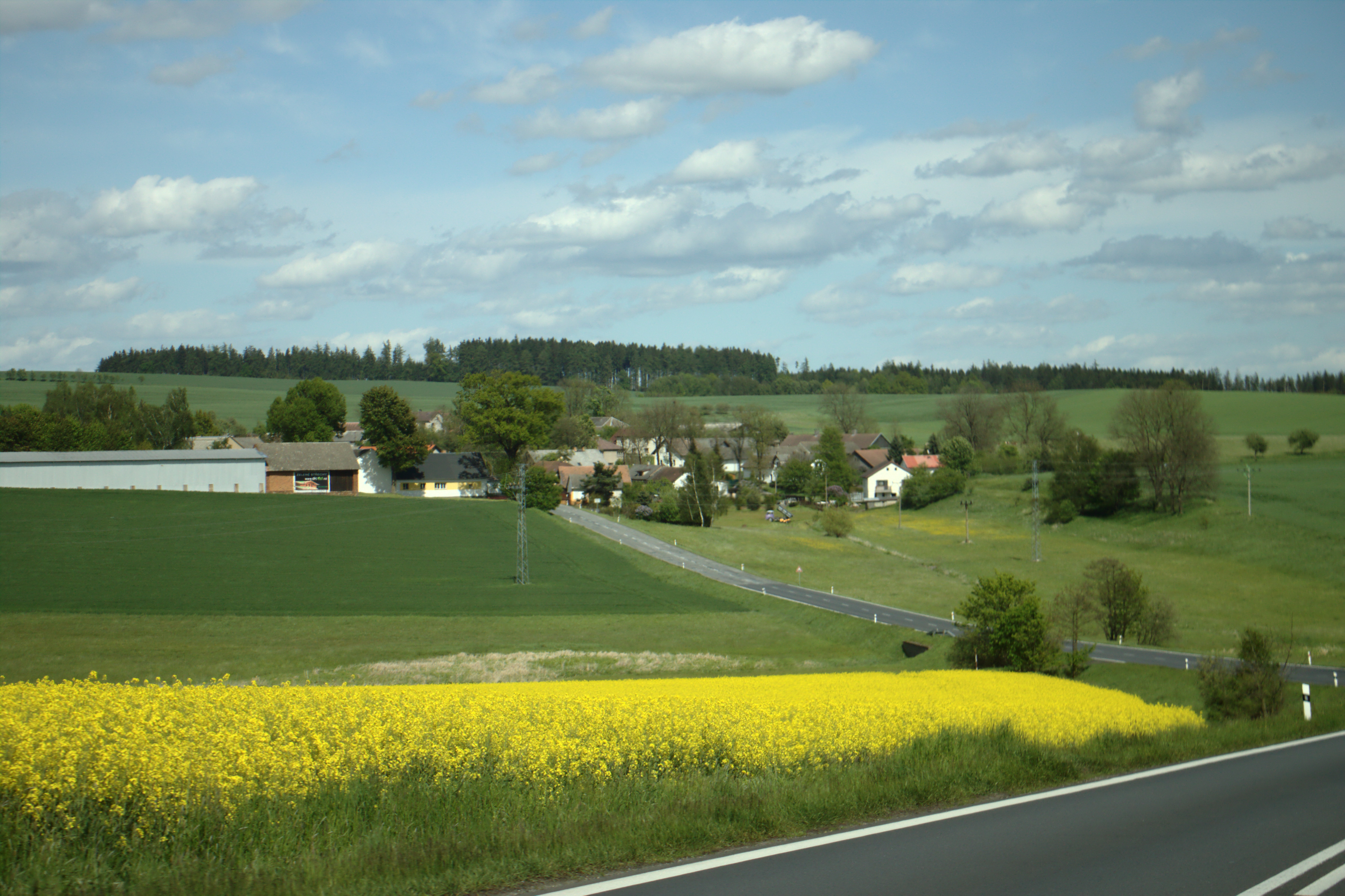 View of the village of Krátká Ves from south, Vysočina Region, CZ